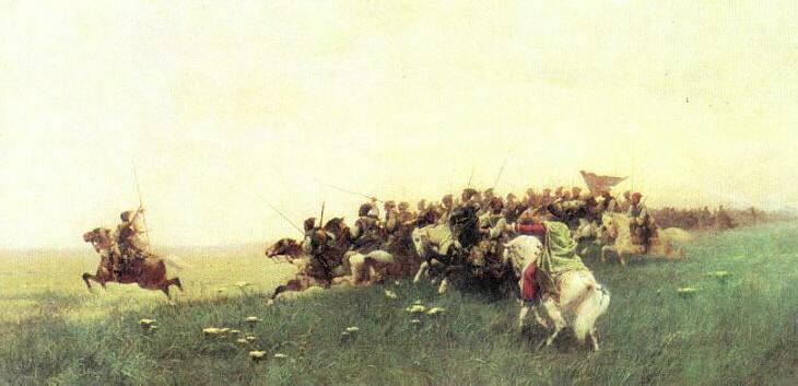 Franz Roubaud. Zaporoshian Cossack Assault.